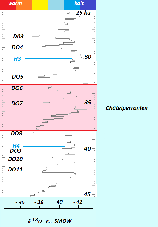 The Châtelperronian (marked in red) in its temporal context 25 to 45 ky BP. The GISP 2 oxygen isotope curve is from Wolfgang Weißmüller. Also indicated are the positions of the Dansgaard-Oeschger events DO 3 till DO11 and the Heinrich events H3 and H4 (in blue).